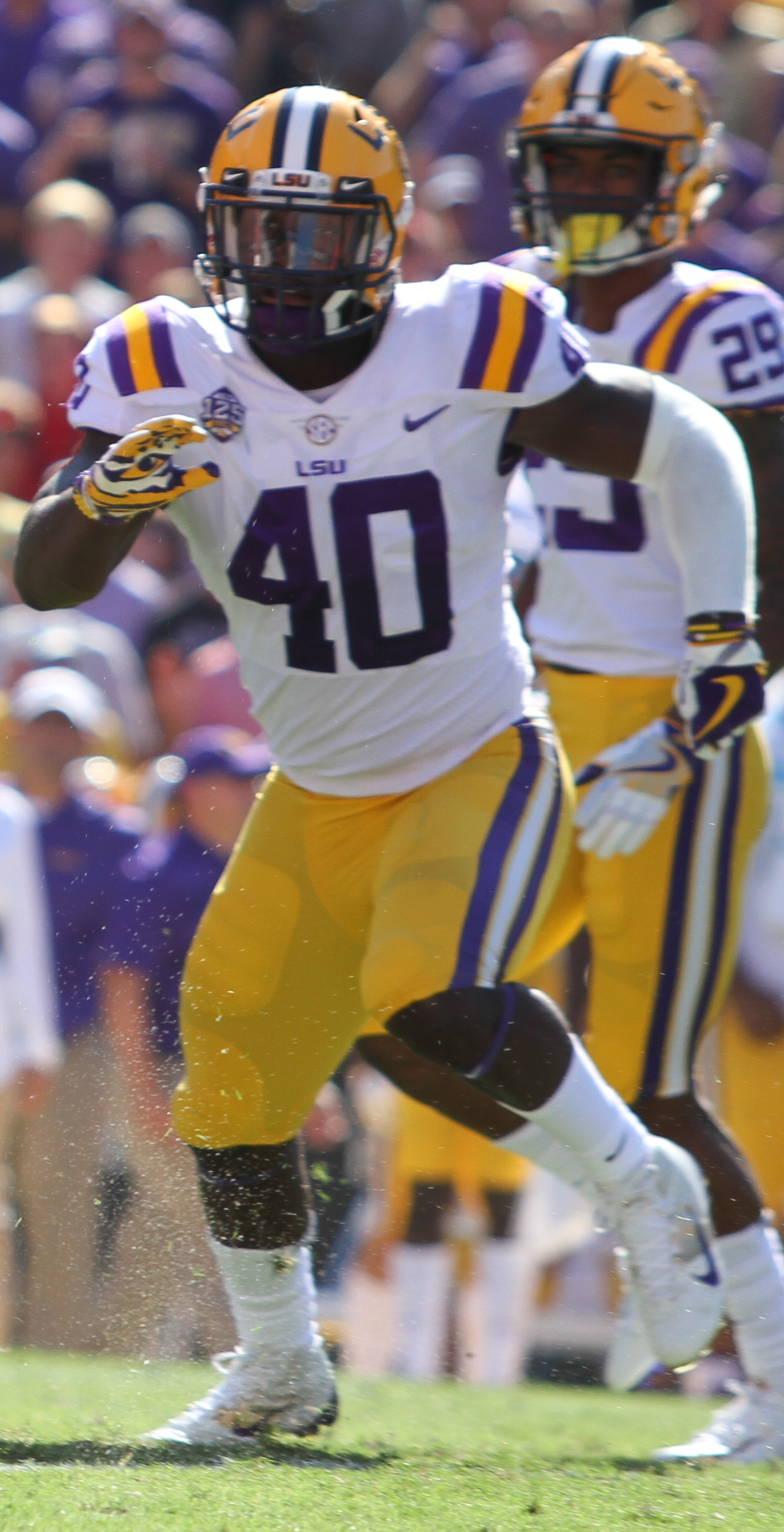 LSU40LSU Tigers linebacker Devin White (40), Georgia Bulldogs vs LSU Tigers, Football, Tiger Stadium, October 13, 2018, Baton Rouge, Louisiana, Tammy Anthony Baker, Photographer